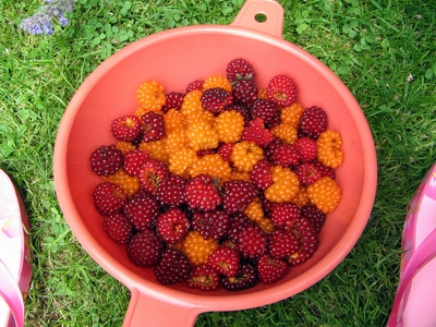 Salmonberries, picked by myself in Surrey, BC, Canada.